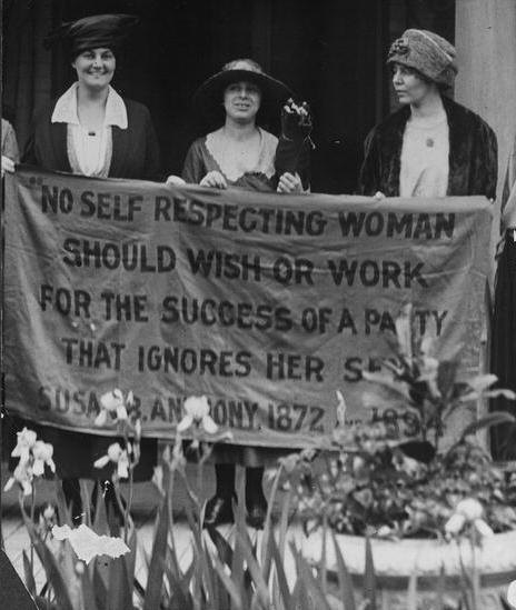 Photograph of Kenyon Hayden Rector, Mary Dubrow, and Alice Paul standing outside the 1920 Republican Convention in Chicago and holding a banner, "No self respecting woman should wish or work for the success of a party that ignores her sex. Susan B. Anthony, 1872."